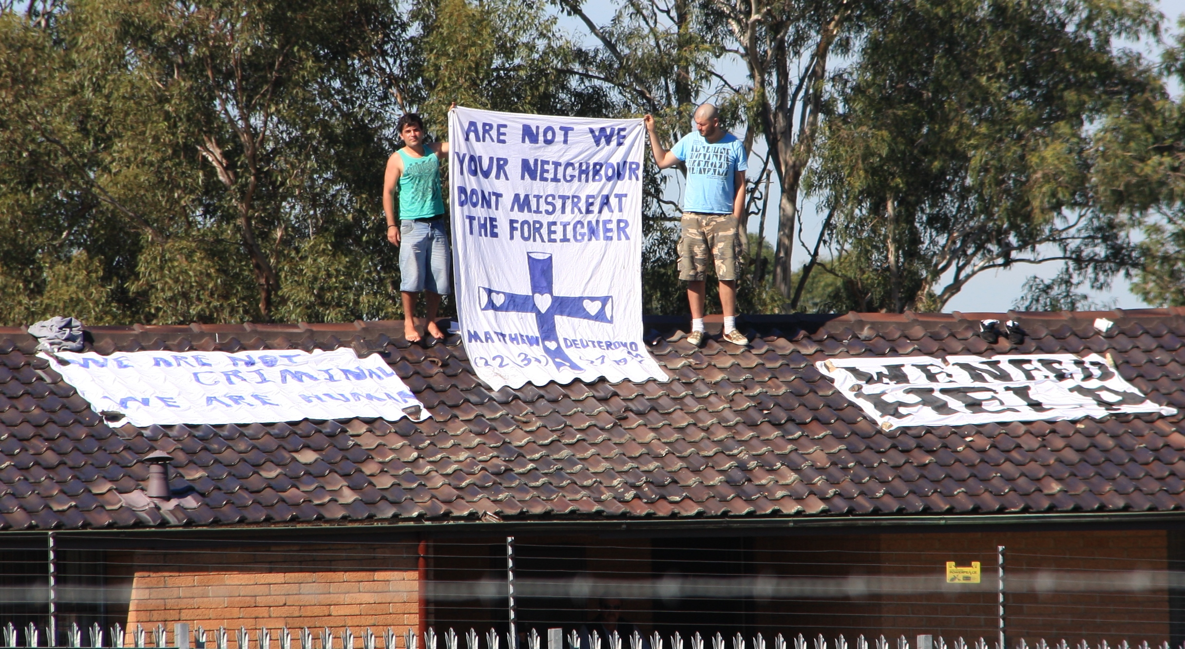 asylum seekers protesting at the Villawood detention center in Sydney